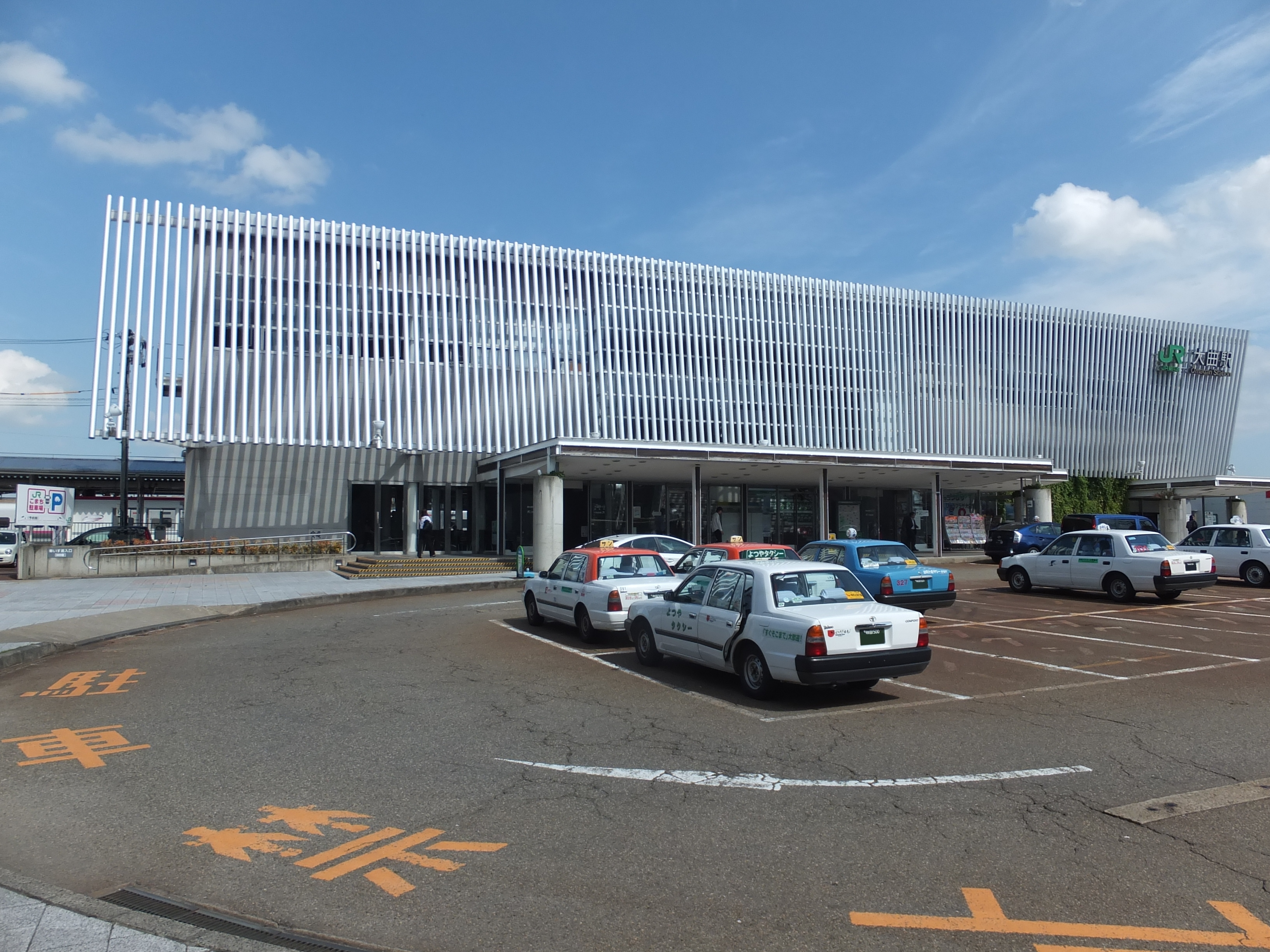 Omagari Station on the Akita Shinkansen, Ou Main Line, and Tazawako Line, in Daisen, Akita, Japan